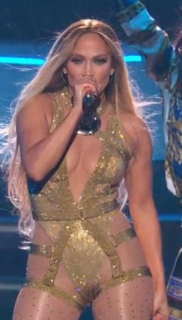 Jennifer Lopez in a concert